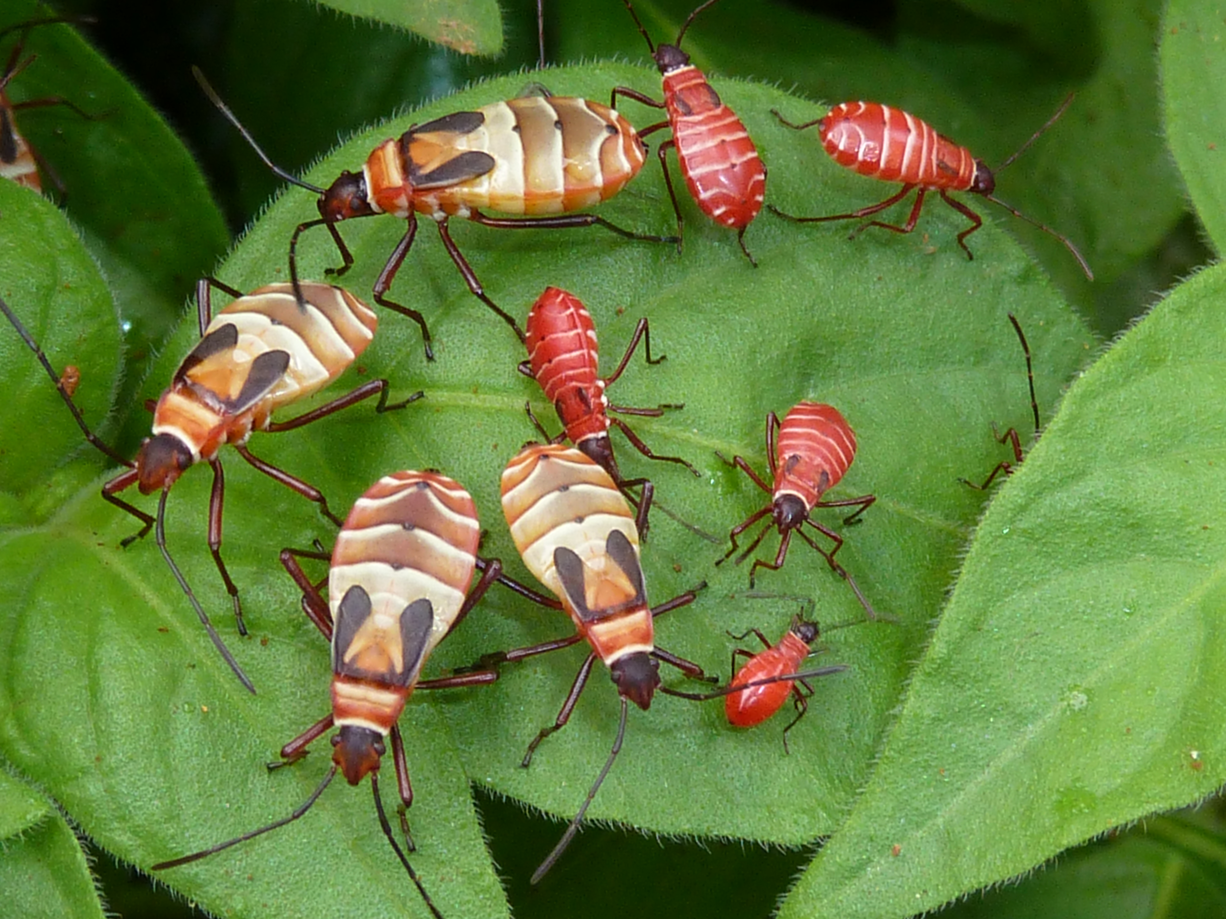 Cotton stainers of various age groups on a Shrimp plant, Justicia brandegeana, in the Manie van der Schijff Botanical Garden, Pretoria